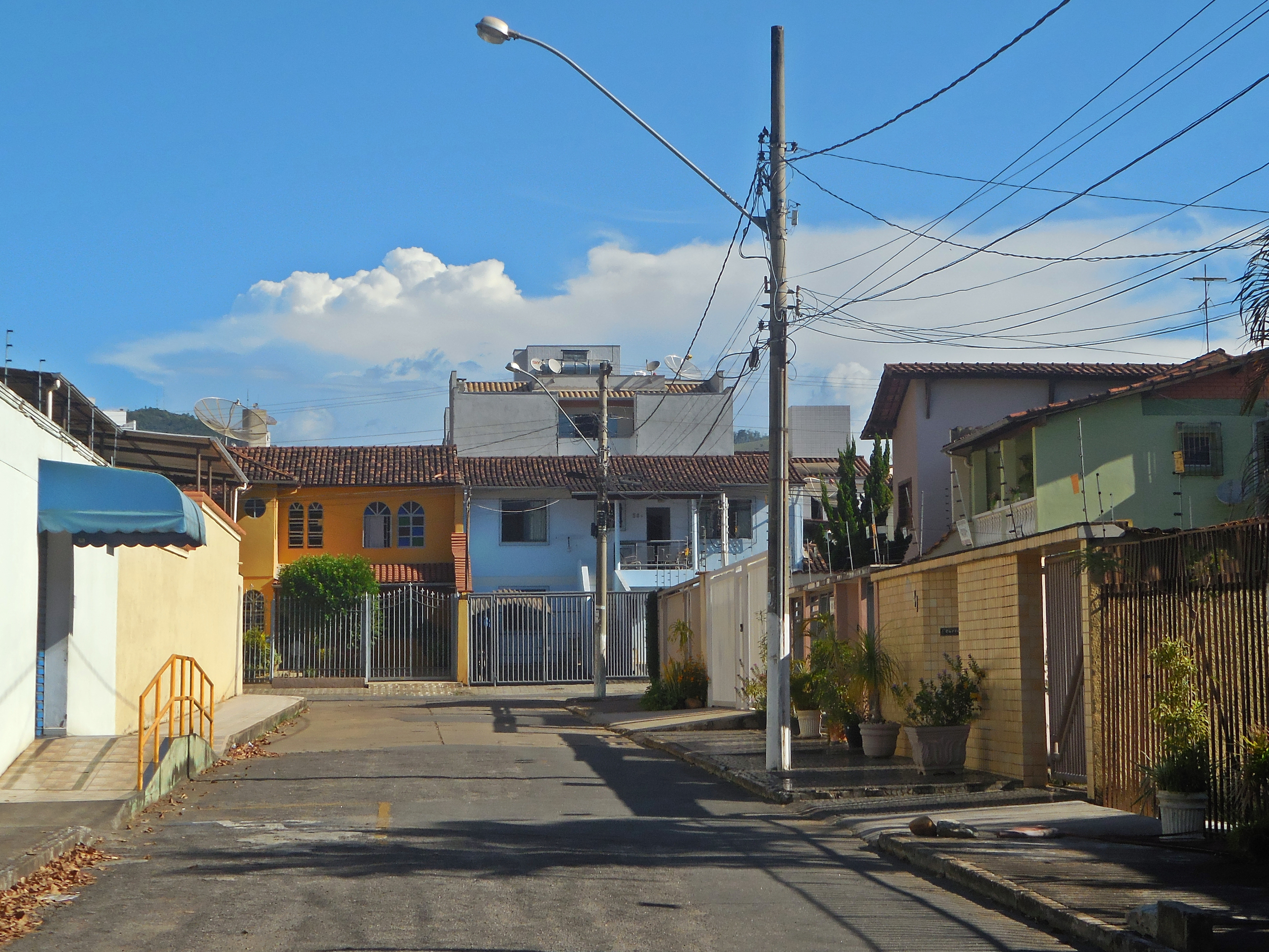 Aspect of the Professores neighborhood, in Coronel Fabriciano, Minas Gerais, Brazil.